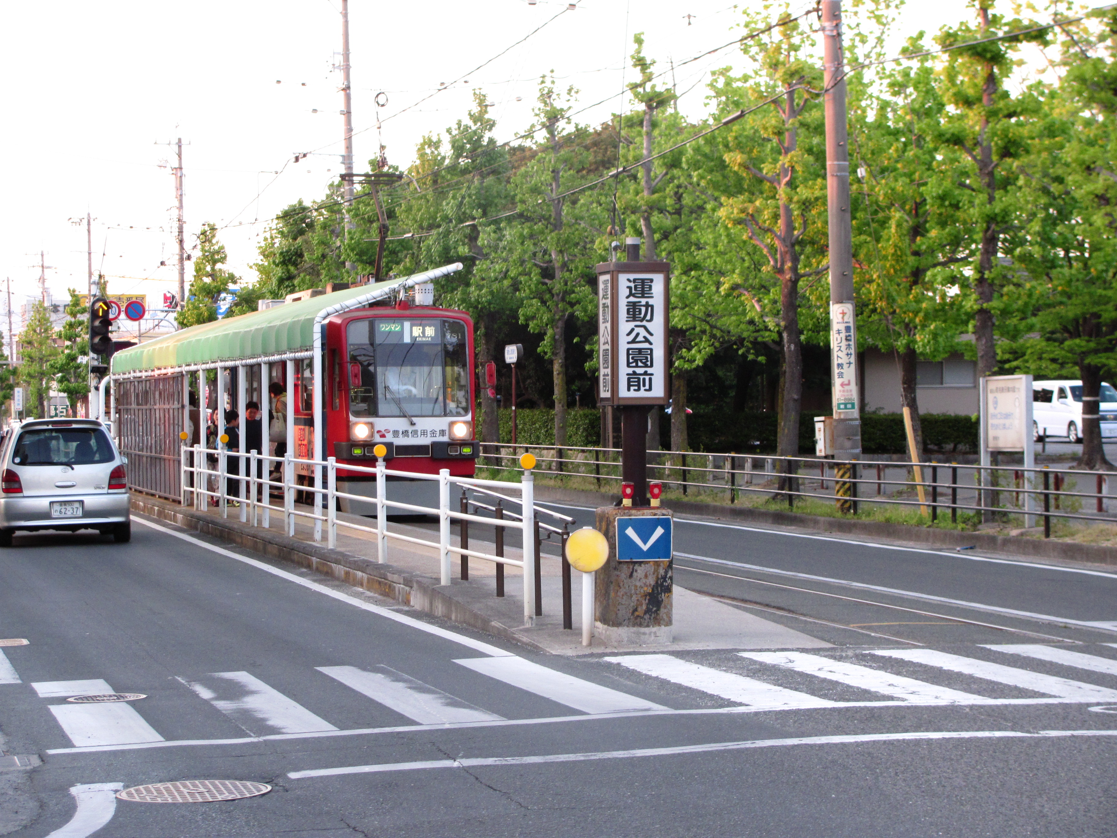 東田本線運動公園前駅